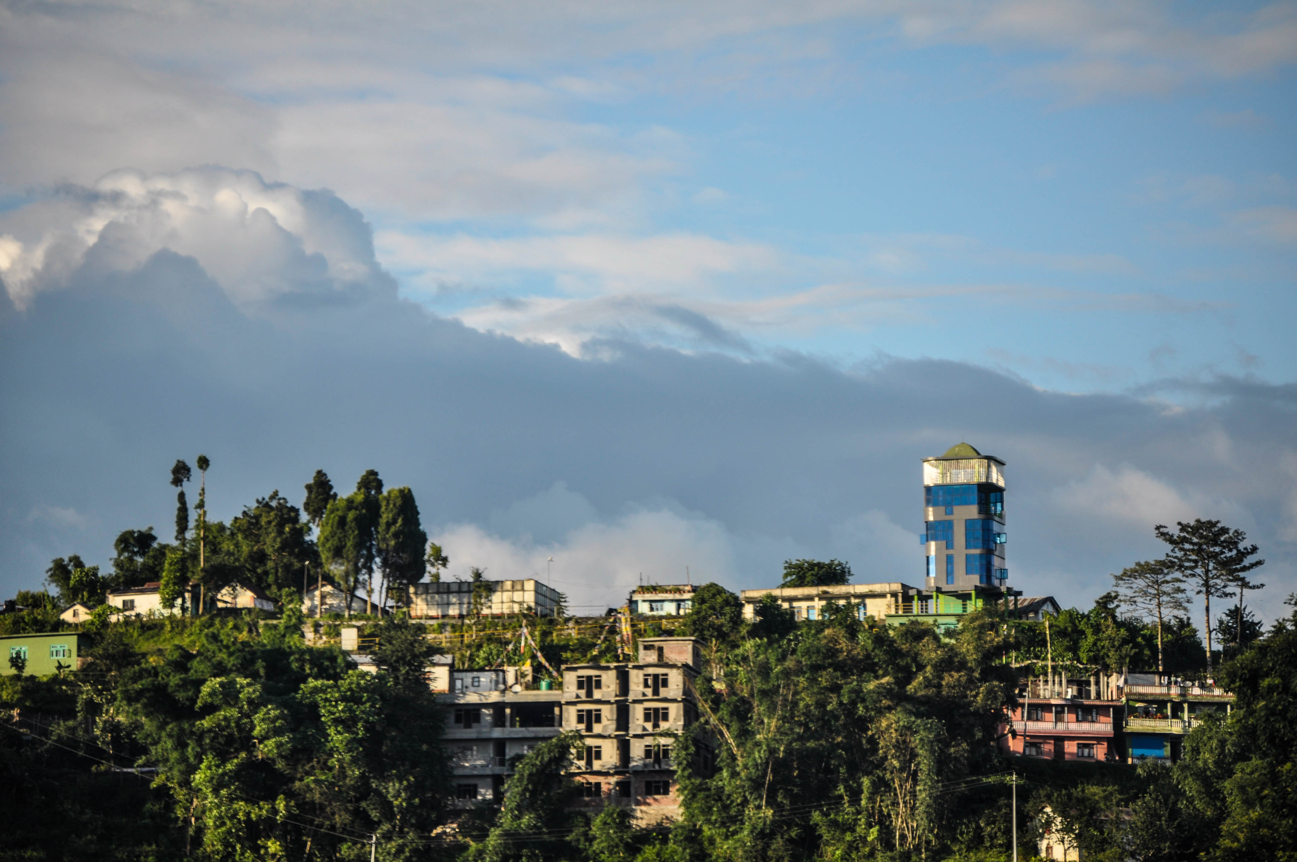 natural beauty of ilam Nepal